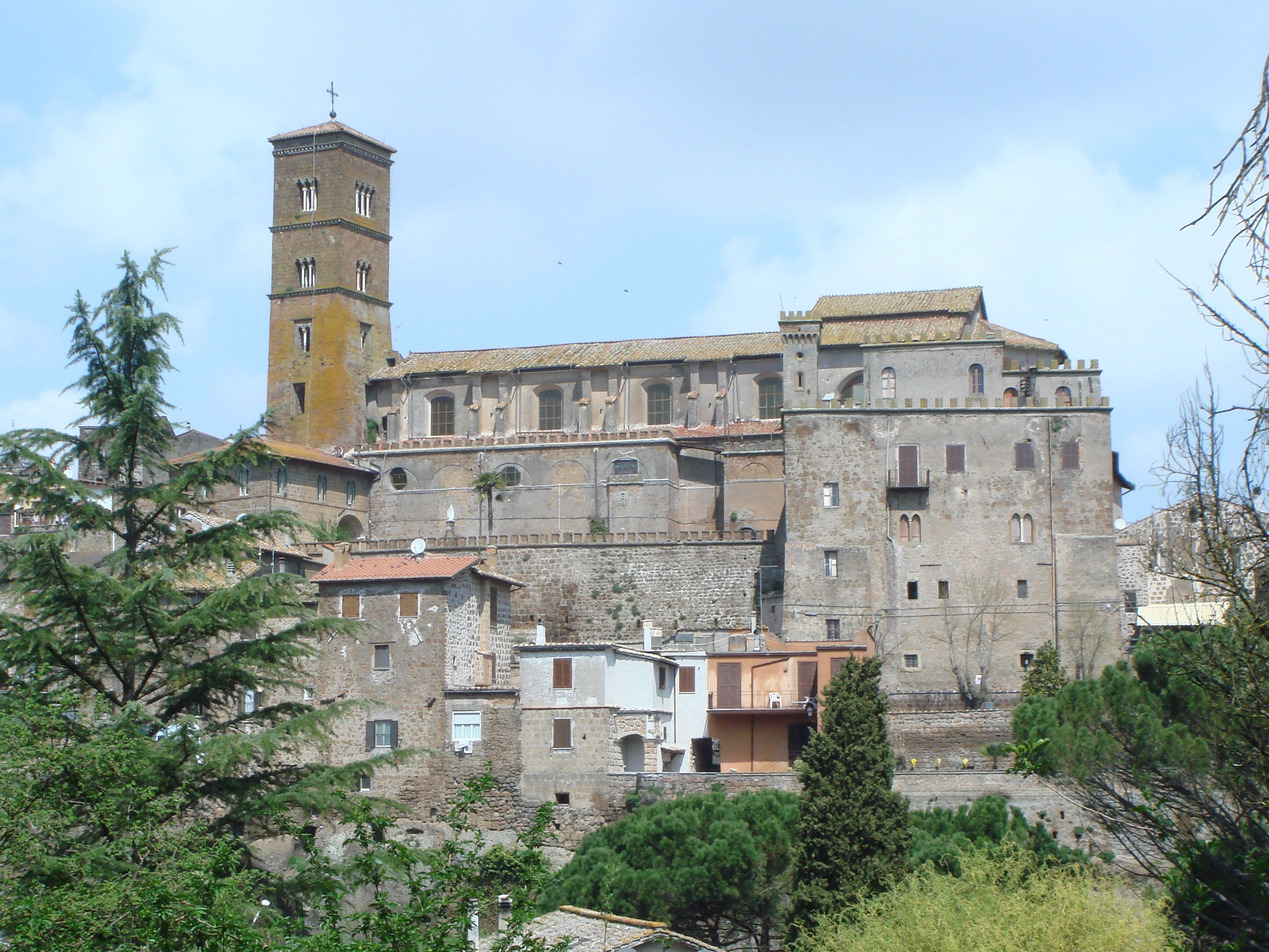 View of old city of Sutri, Italy, with the Cathedral of Santa Maria Assunta